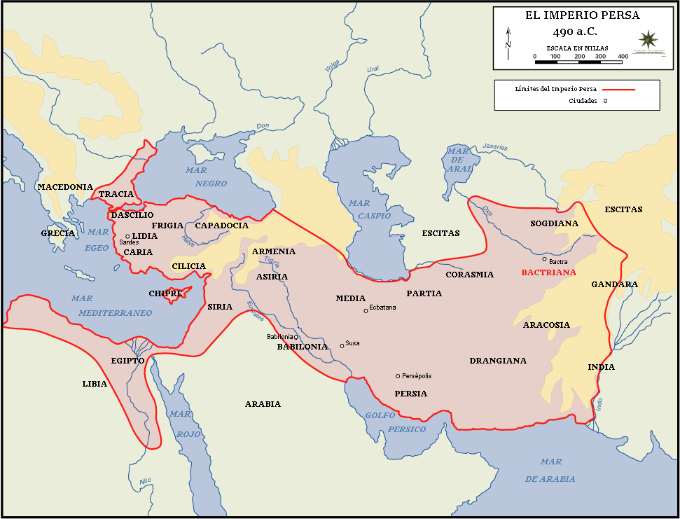 The Persian Empire in 490 BC. Spanish version Own work, based on a public domain image created by the Department of History, United States Military Academy, West Point. Castellano:El Imperio Persa en el 490 aC. En castellano. Marca Bactriana en rojo. Trabajo propio, basado en